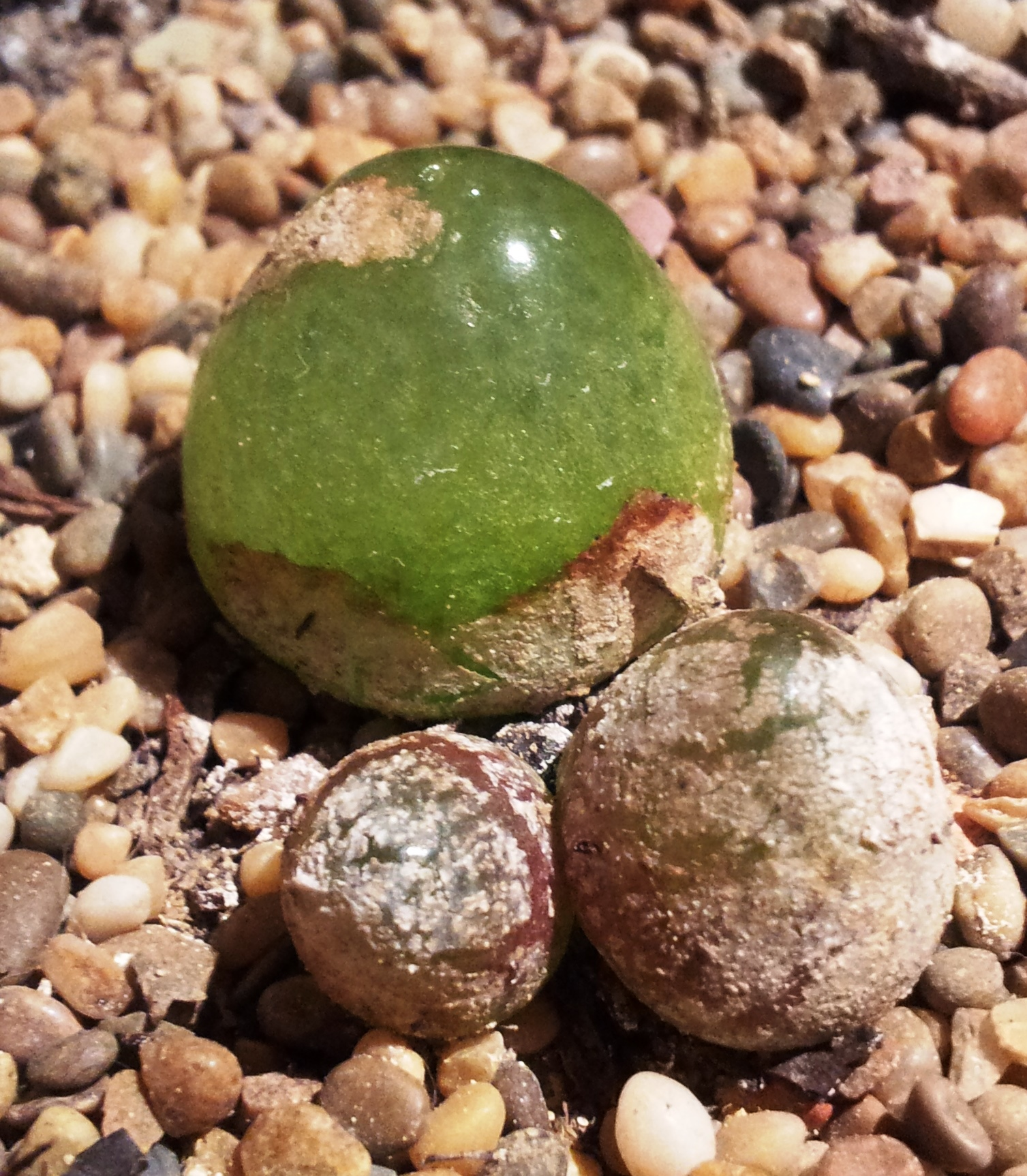 Conophytum burgeri in cultivation